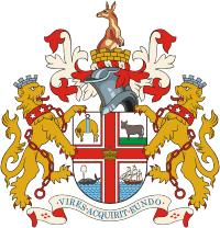 Coat of arms of the city of Melbourne, in Australia